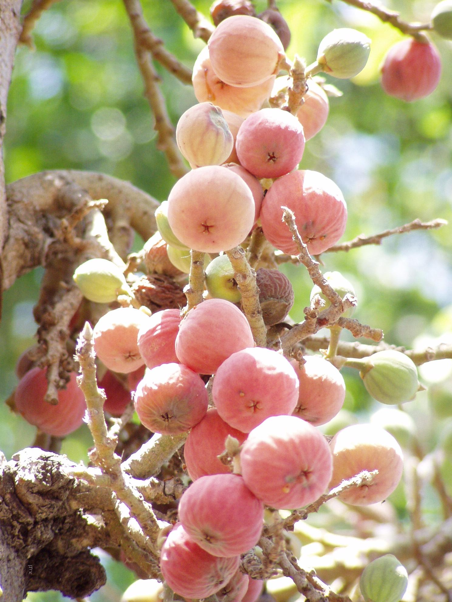 Fruits of the Ficus sycomorus.